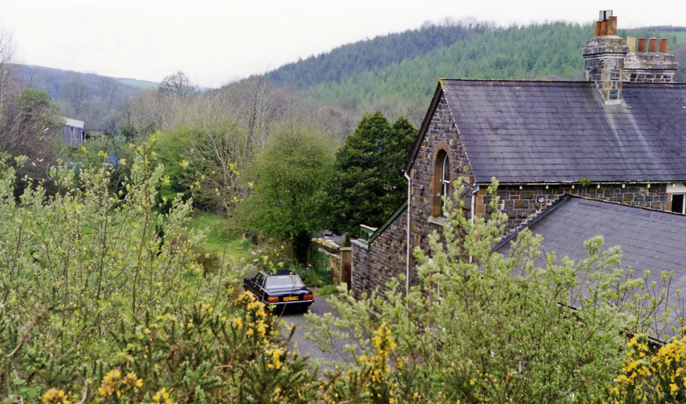 Former station at Ashwater, 1995. View SW, towards Wadebridge and Padstow: ex-LSWR (Exeter) - Okehampton - Halwill - Padstow 'Withered Arm' line, closed from Okehampton 3/10/66. By 1995 the station has been made into a very desirable residence